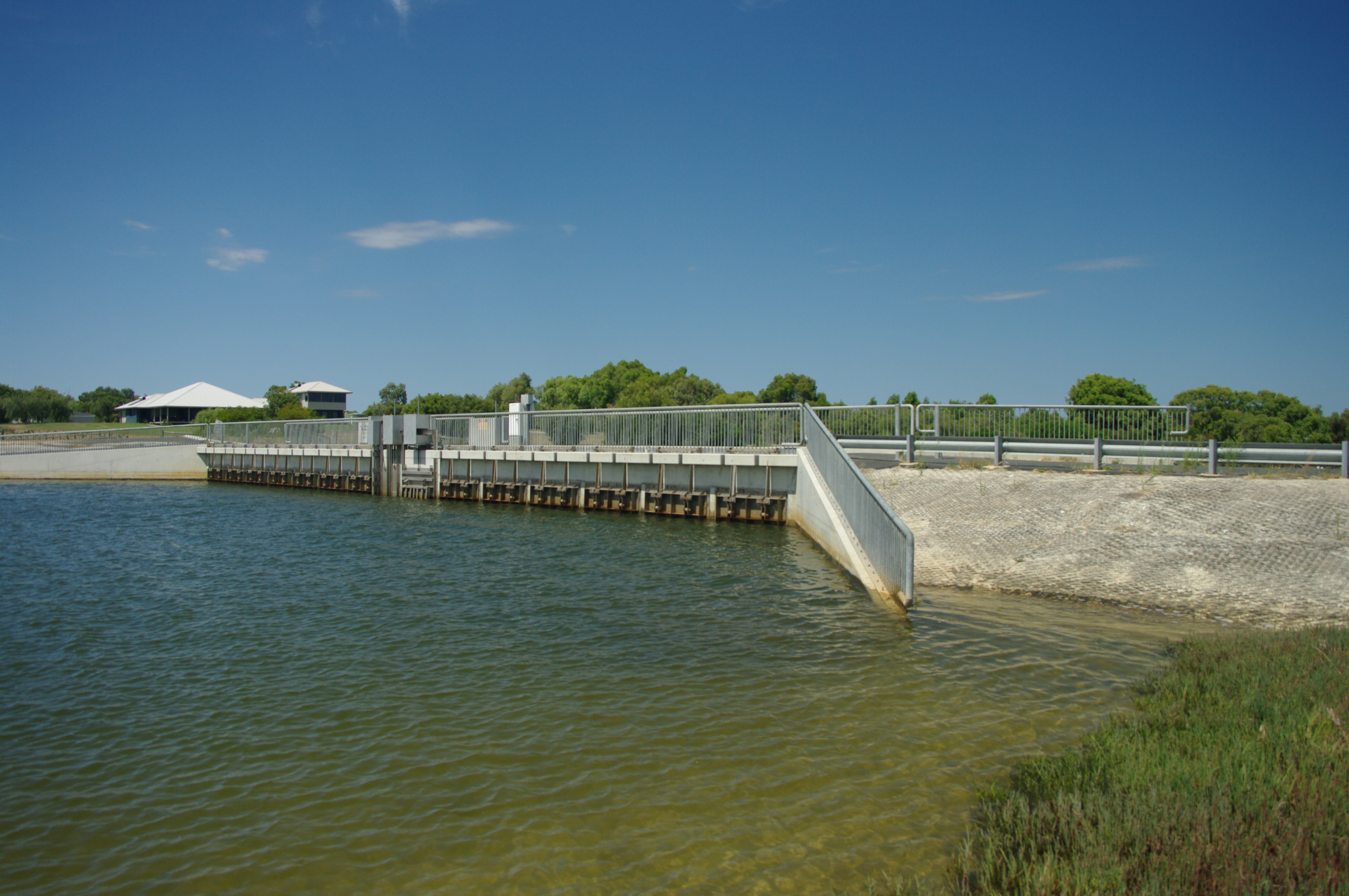 Vasse Floodgate, the current site is where the Ballarat bridge crossed the Vasse River